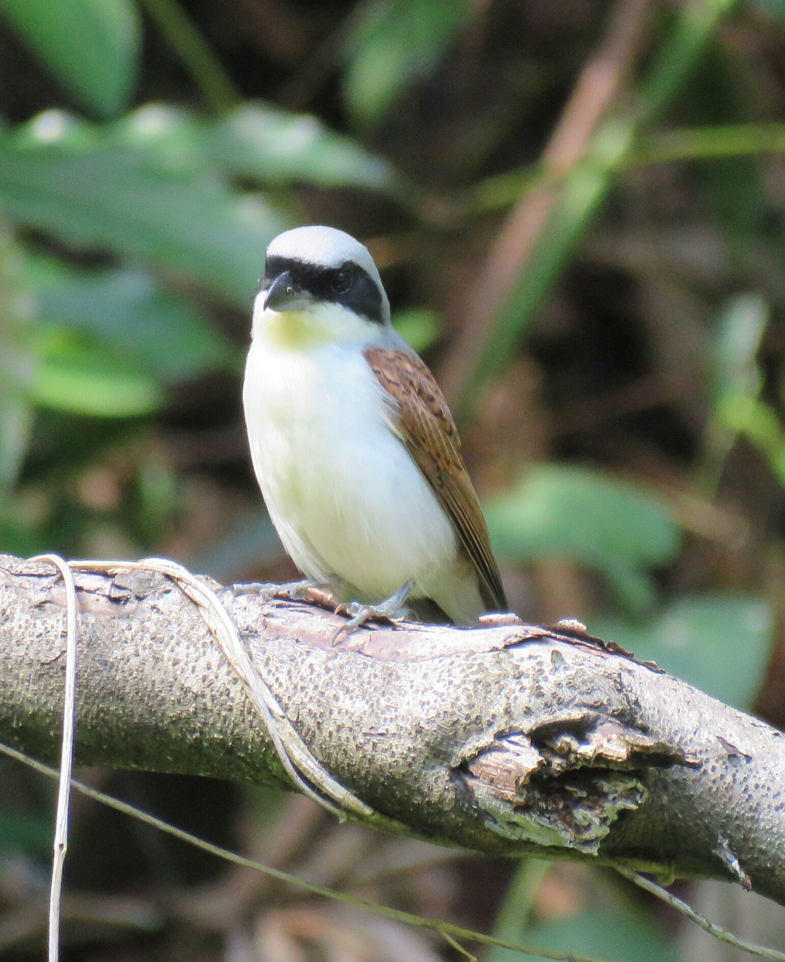 Lanius tigrinus, male, adult